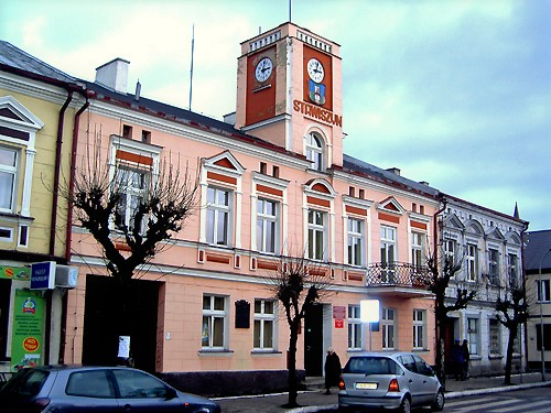 Stawiszyn City Hall, Poland